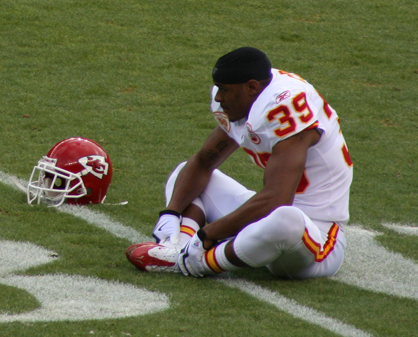 Brandon Carr, a player on the Kansas City Chiefs American football team.